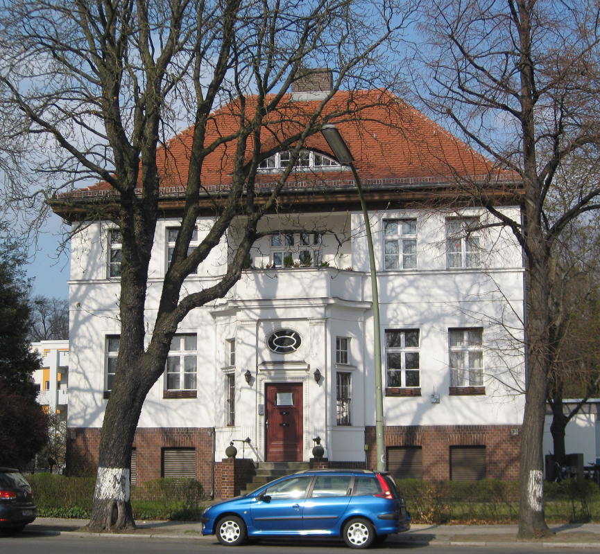 Main entrance of the House Rißmann, Alt-Wittenau 31